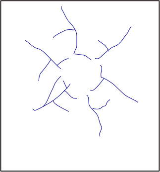 Annular drainage pattern Free for all use Author:Eurico Zimbres